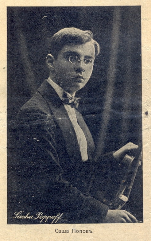 Bulgarian violinist and conductor Sasha Popov (aka Sacha Poppoff) - a photo in a newspaper clip in the archives of Stefan Makedonski